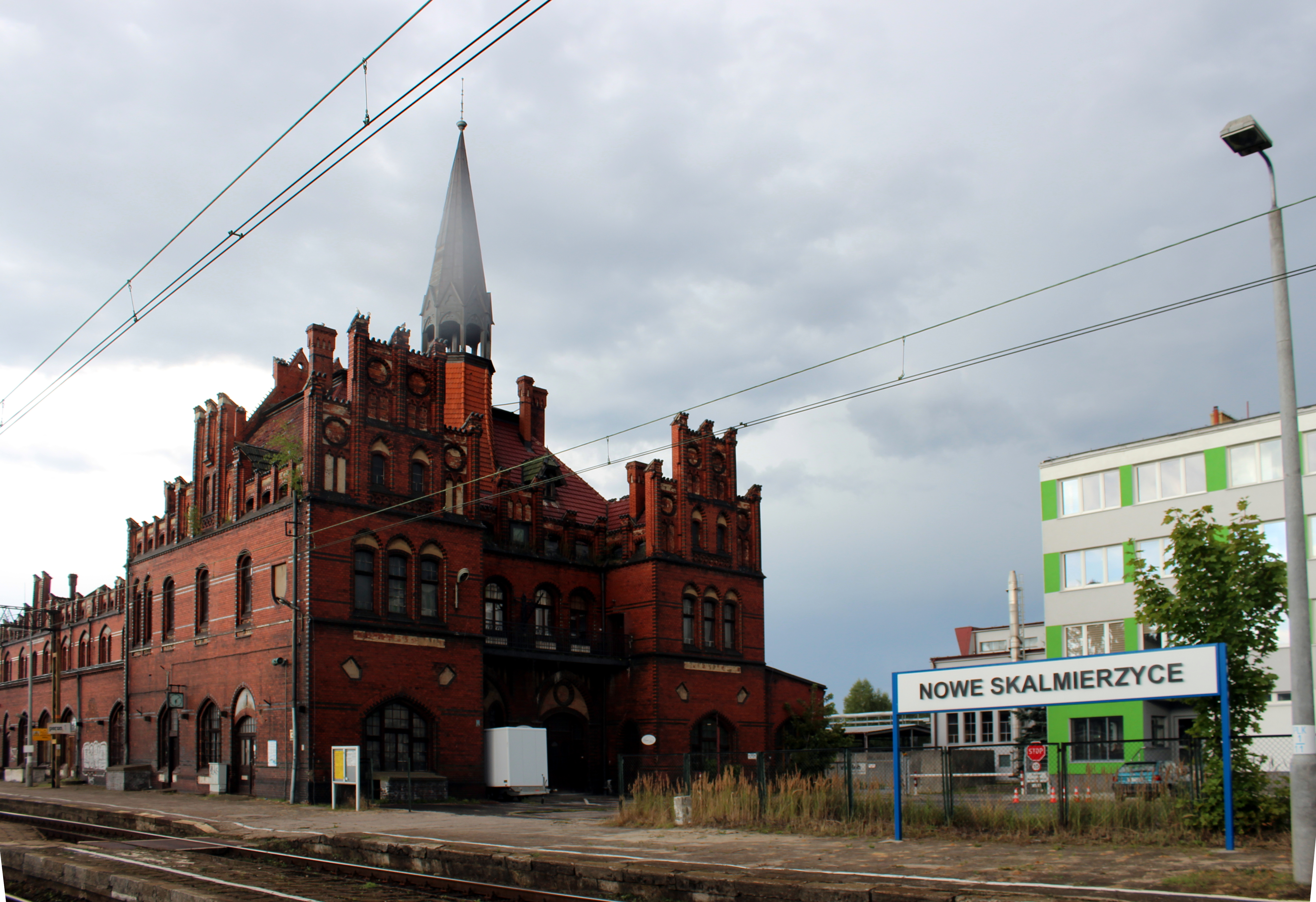 Nowe Skalmierzyce train station